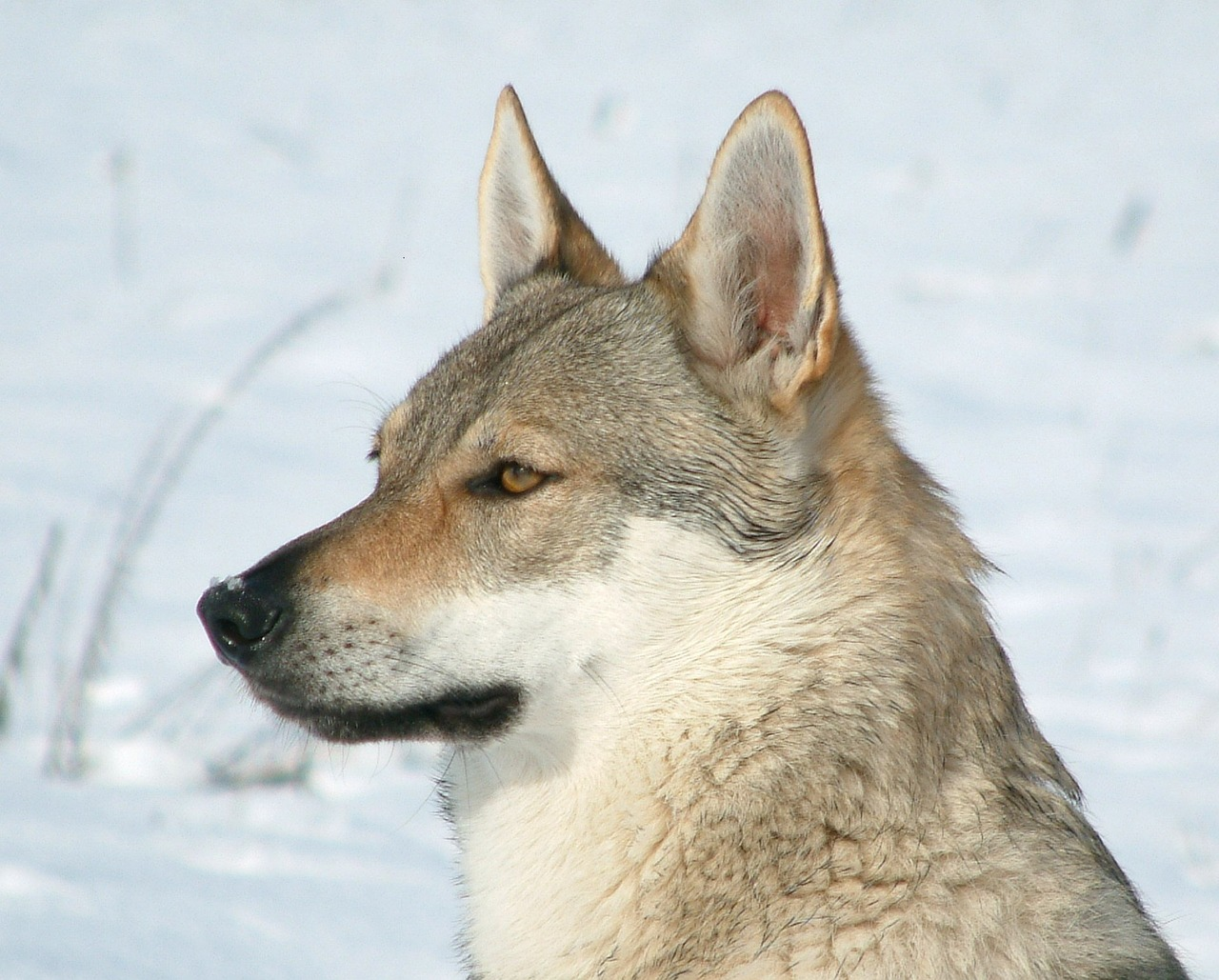 Please give any attribution links to